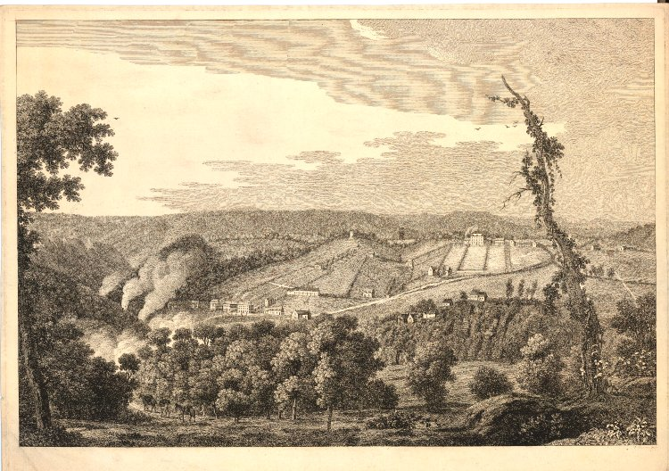 View of Coalbrookdale ironworks, Shropshire, England.